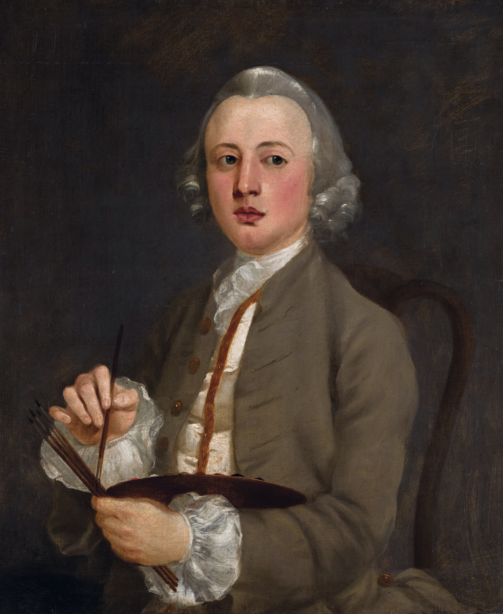 Self-portrait oil on canvas 76.2 x 63.5 cm